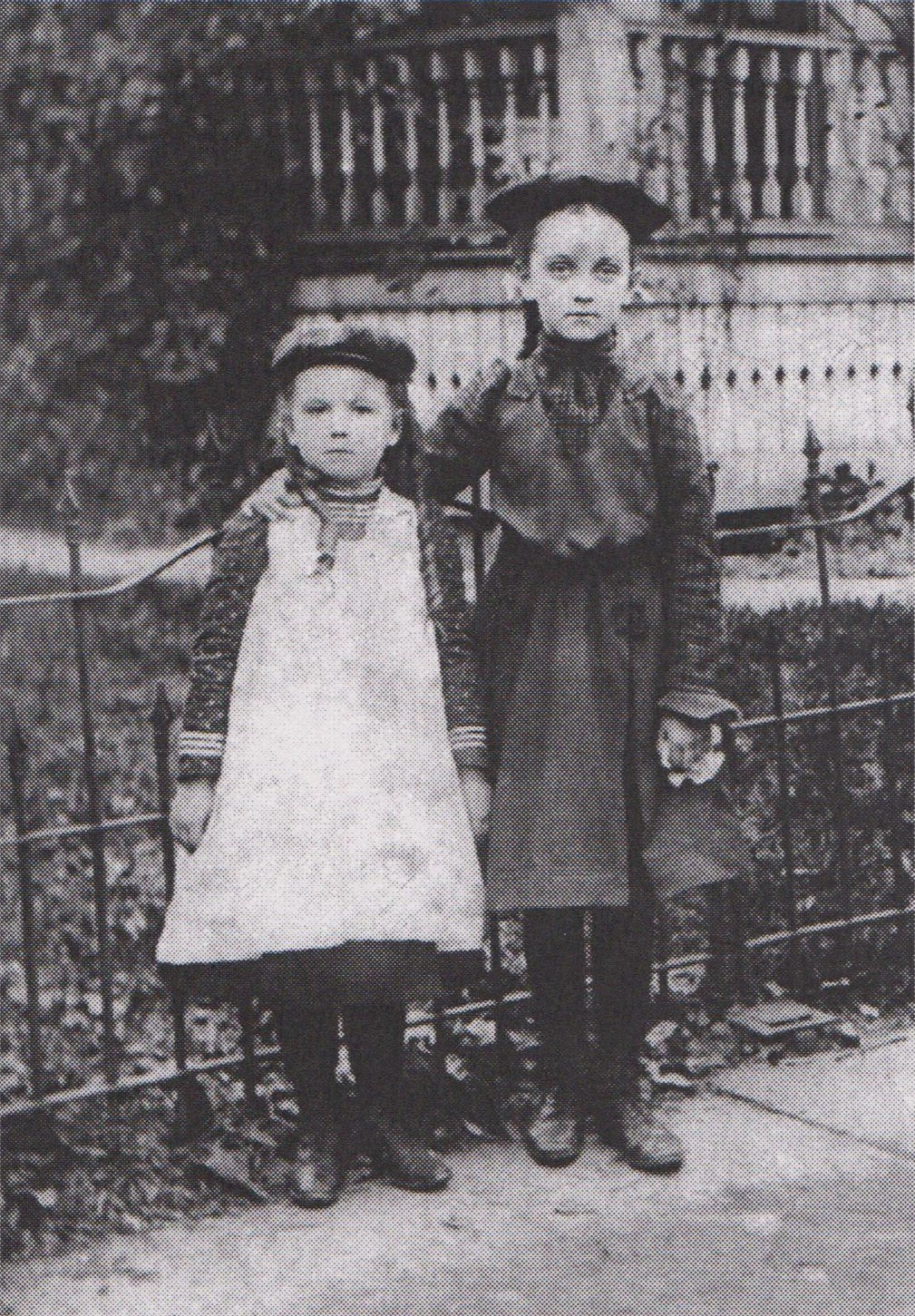 Fern Bartlett Collie and her older sister Chopeta Bartlett Collie, who were school teachers in southern Arizona in the early 20th century. Fern and her sister married two brothers named Collie. Fern taught at the Canelo School and Chopeta at the Rain Valley School a few miles to the north. Scanned image from the book "Hidden Treasures of Santa Cruz County" by Betty Barr (2006) Page 72 ISBN 0979026105